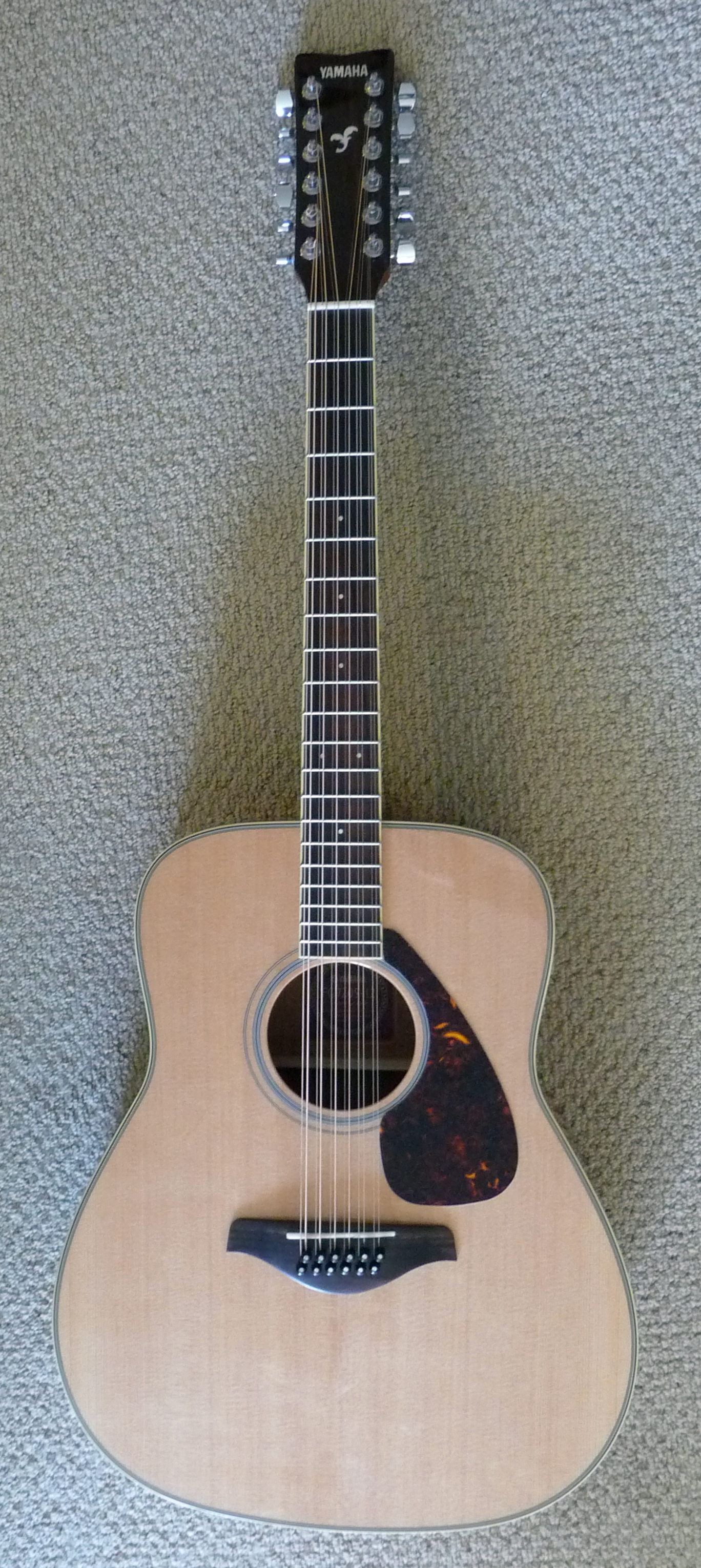 Yamaha FG720S-12 12 string acoustic guitar, from Ben's personal collection.